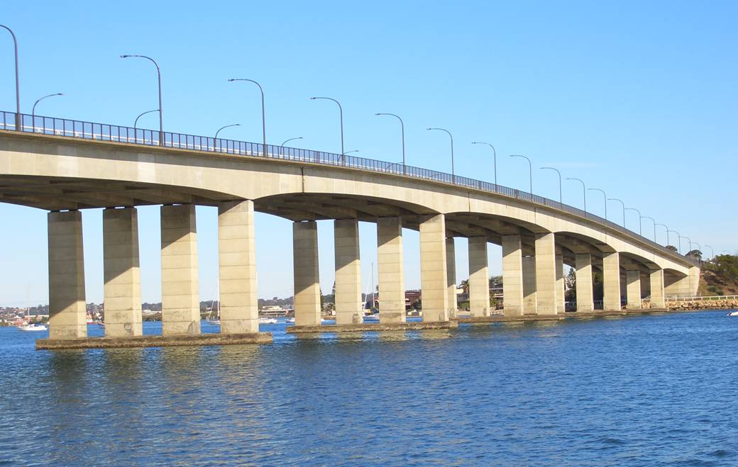 Captain Cook Bridge from Sans Souci, Sydney, Australia. I took the photo on 9th July 2006. J Bar 22:36, 25 July 2006 (UTC)